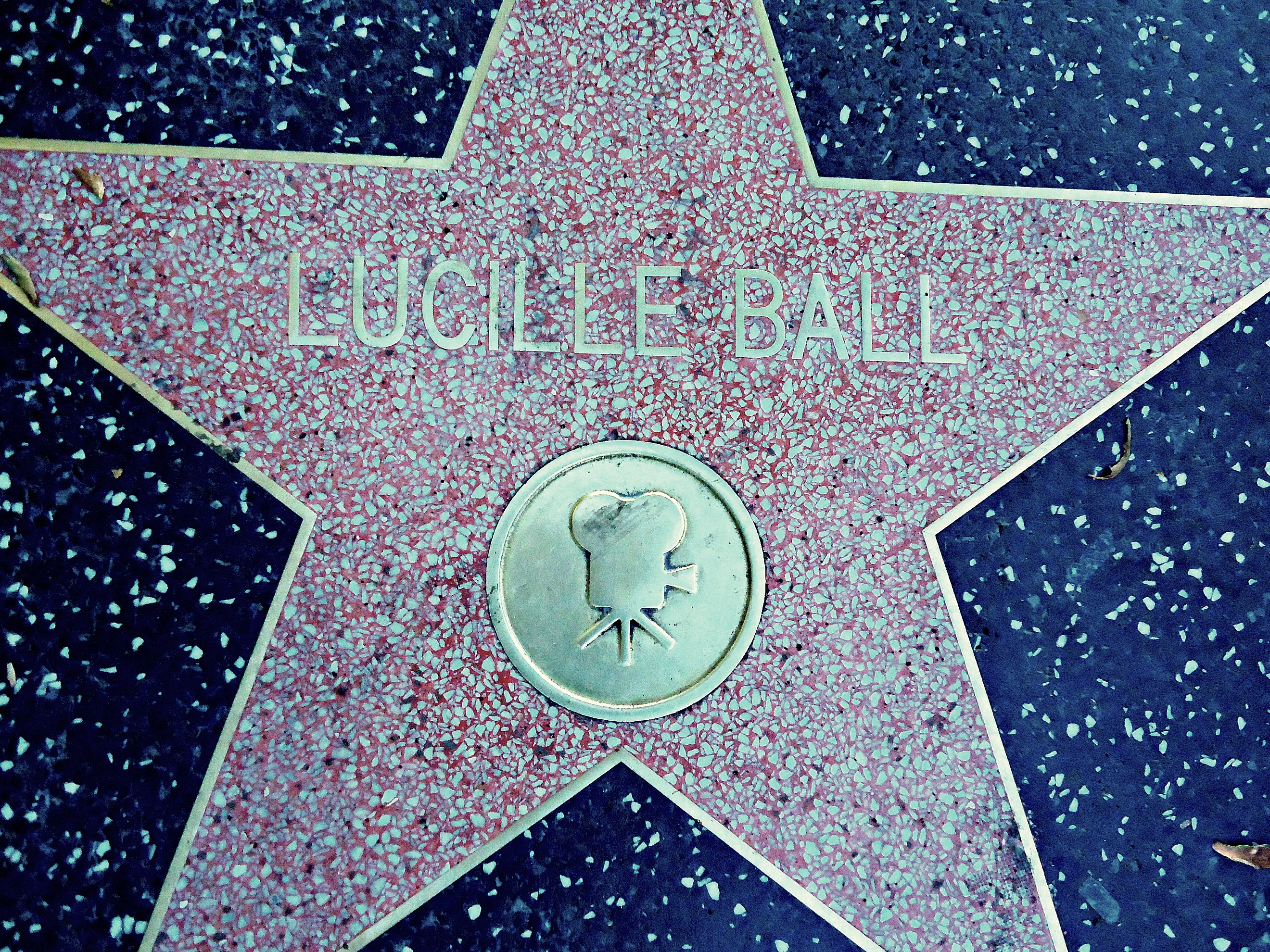 Lucille Ball's Star for her film work on the Hollywood Walk of Fame.